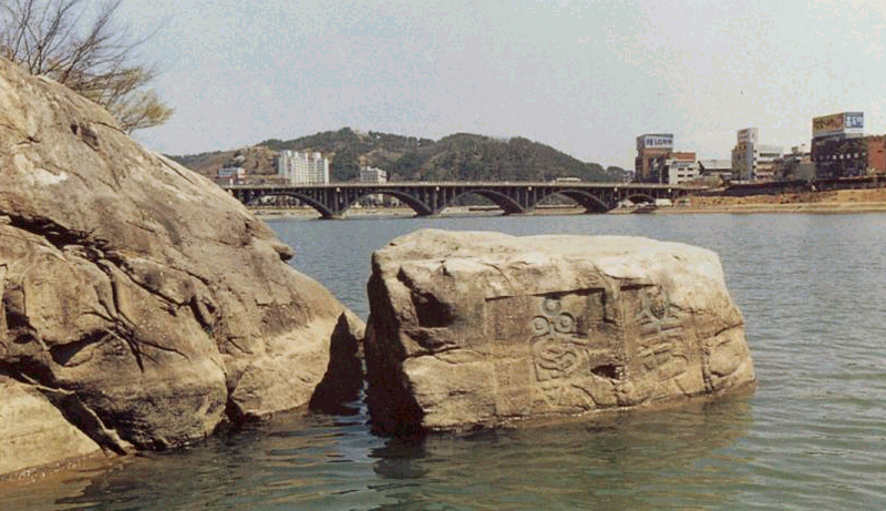 The Jinju rock of loyalty where Nongae had died with Japanese army General